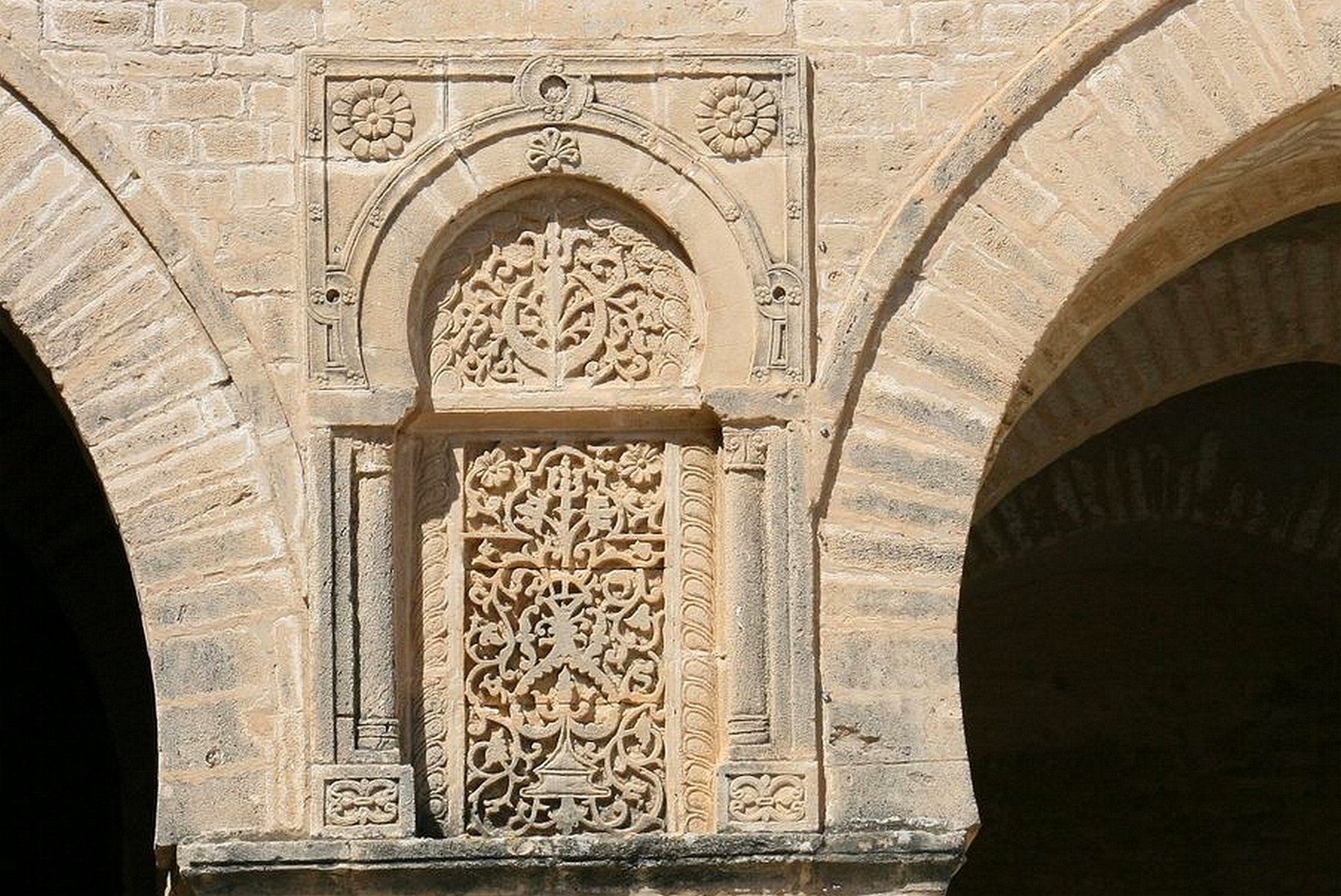 Close up of a carved stone panel of the facade of the western portico of the courtyard in the Great Mosque of Kairouan, in Tunisia.